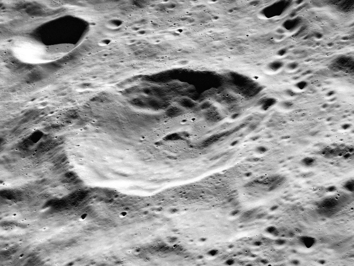 Oblique view of Henderson, on the far side of the moon, facing west.